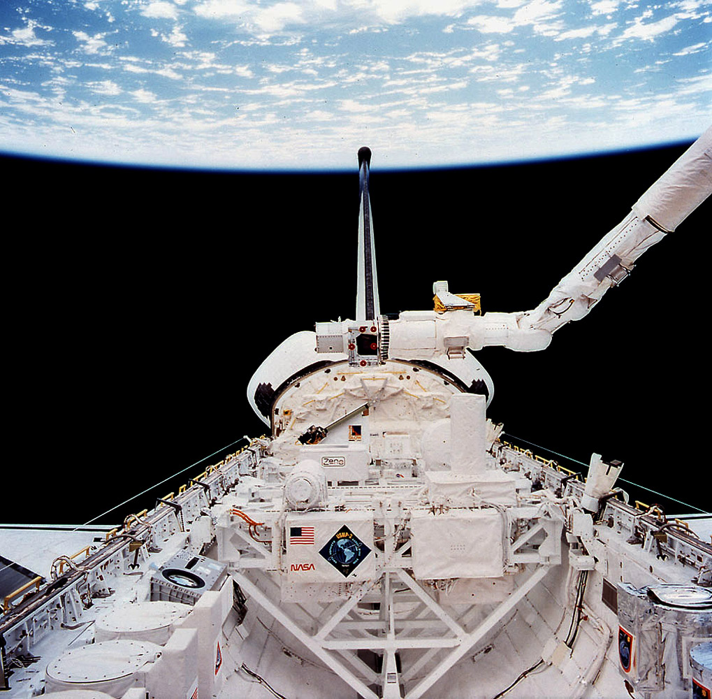 Payload Bay of Columbia with USMP-02 and the Dexterous End Effector experiment visible.